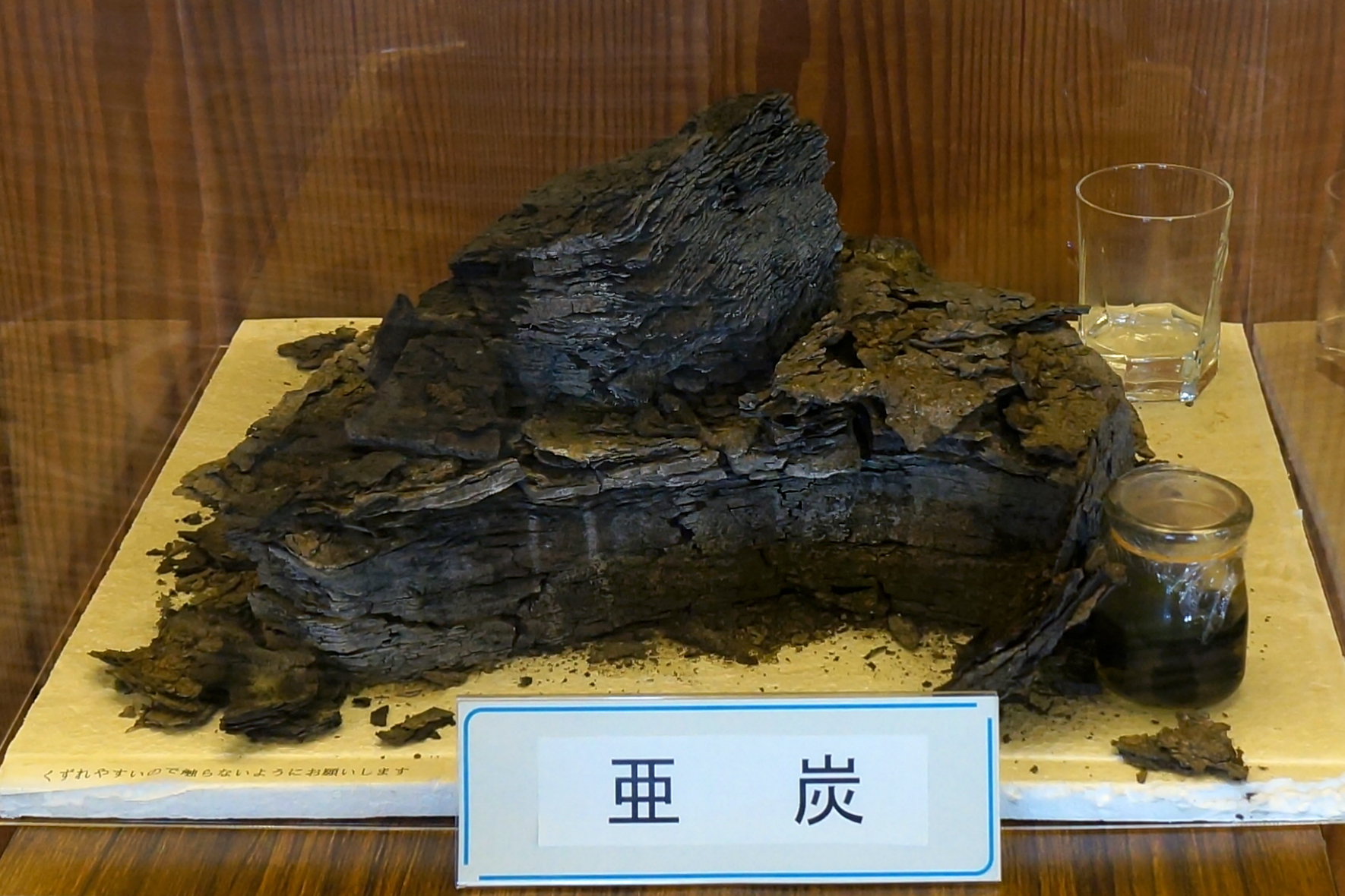 At Tokachigawa Onsen in Otofuke, Hokkaido prefecture, Japan.